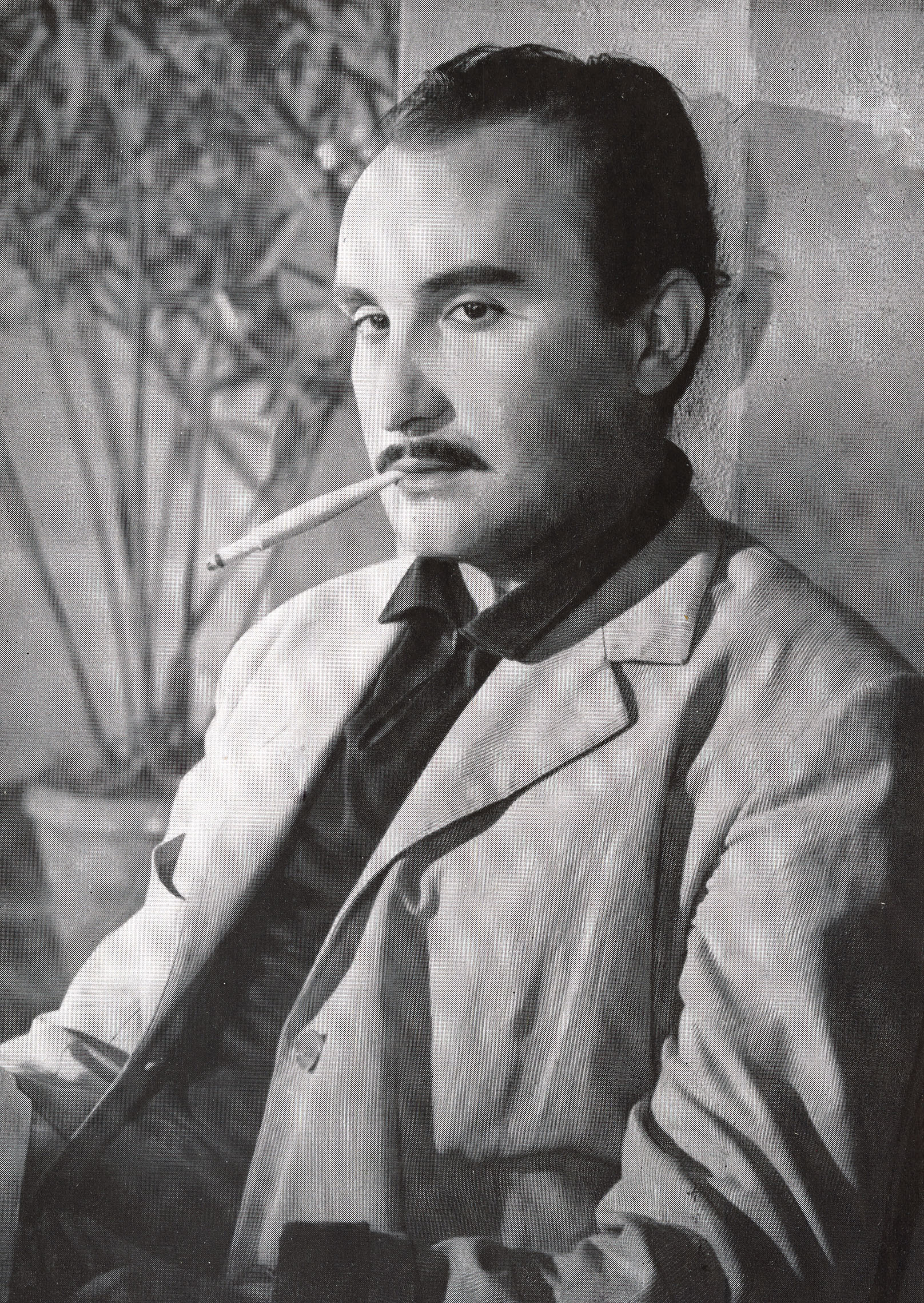 photo from the Italian magazine Cineguida 54 (1954)